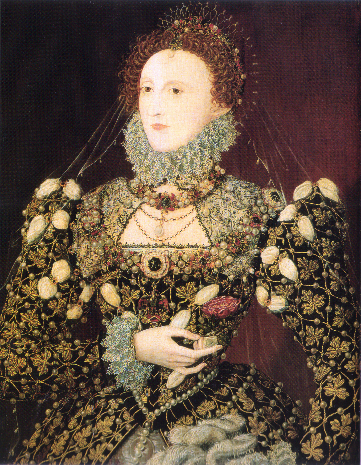 Elizabeth I, the "Phoenix" portrait. On display at Tate Britain (London), lent by the National Portrait Gallery, L00128.